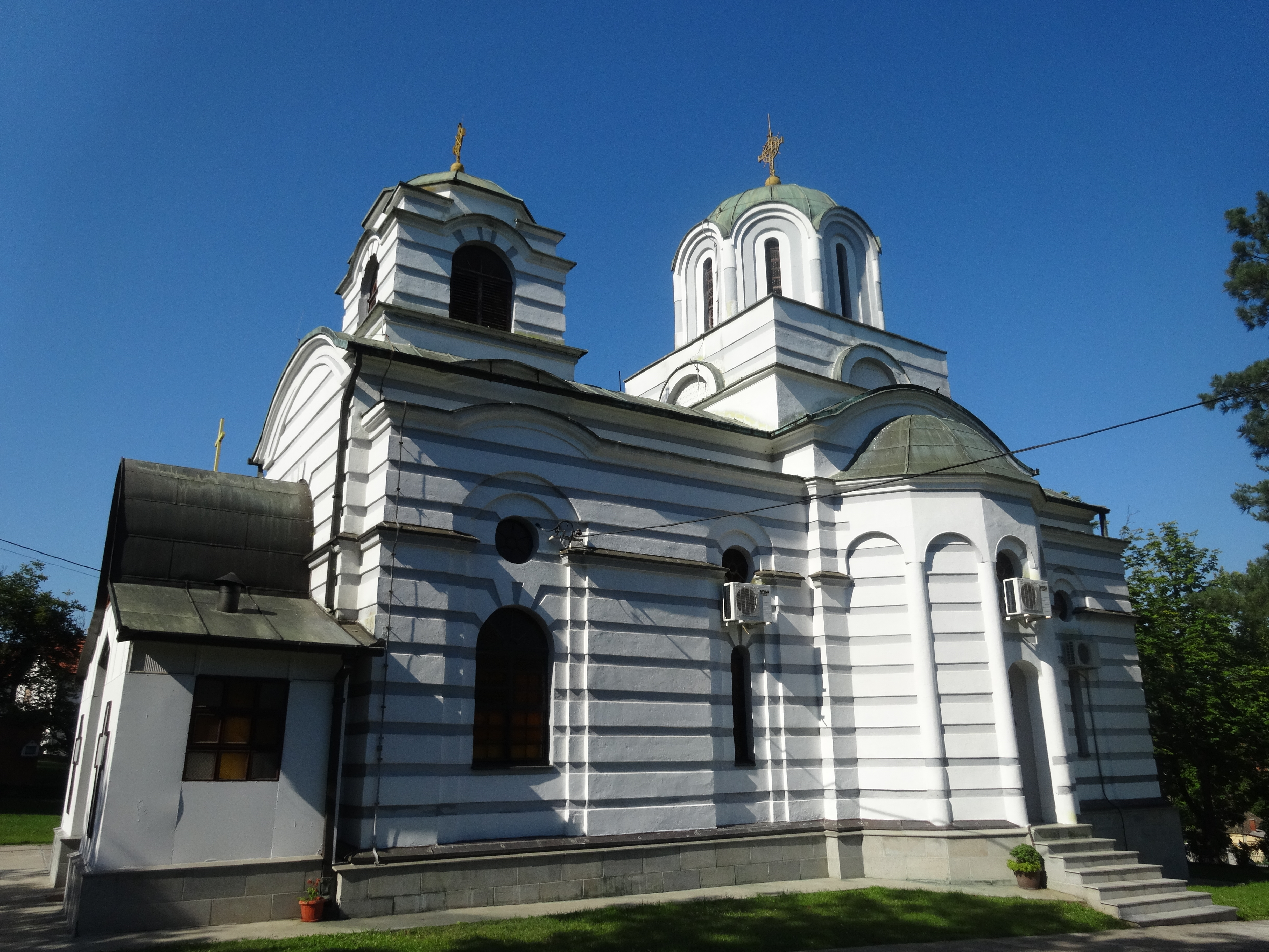 Lajkovac, Church of Saint Demetrius